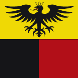 Flag of the Bernese Oberland